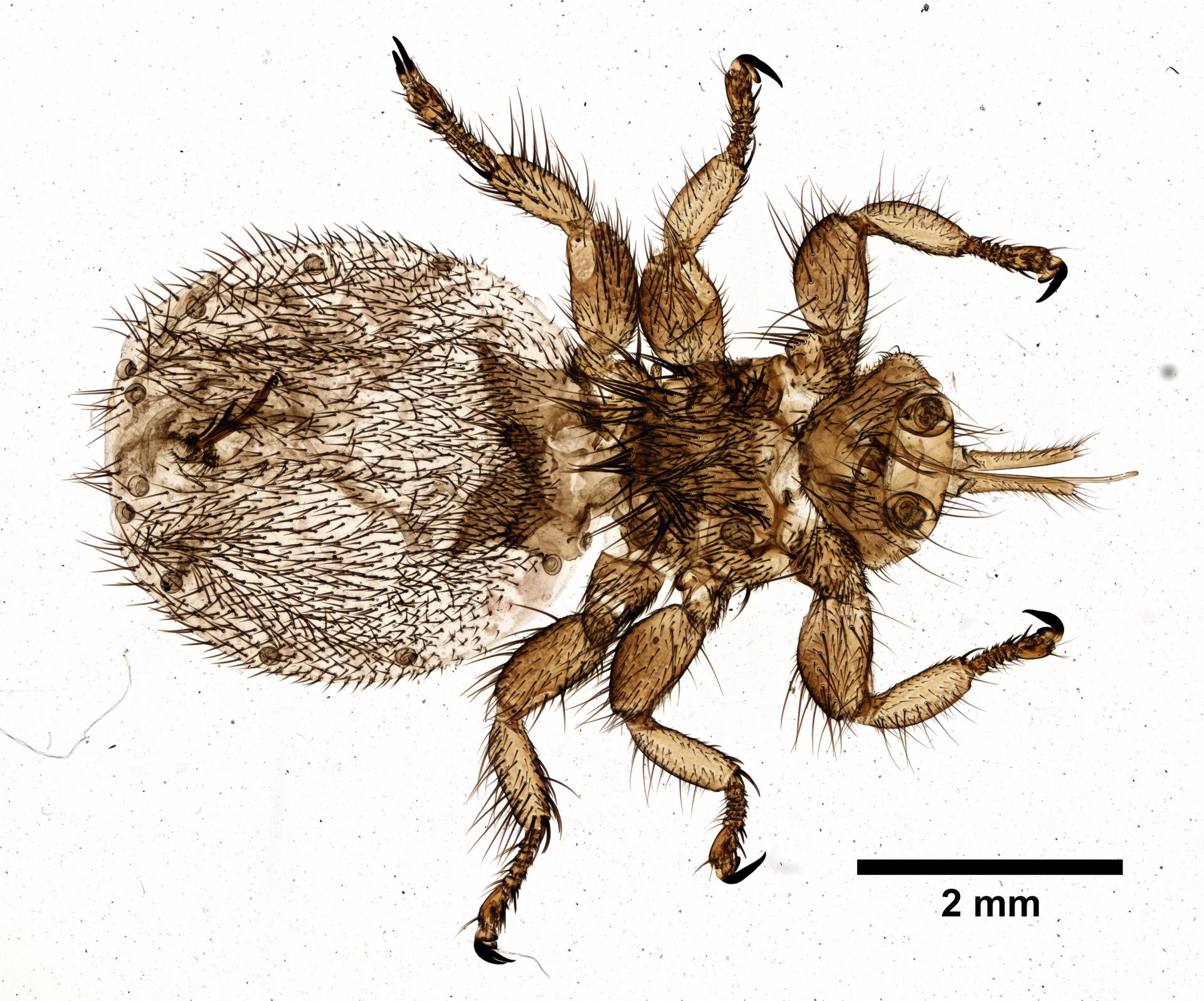 PRESERVED_SPECIMEN; ; ; microslide; ; IZ number 99598; lot count 1; Microslide 01, balsam, whole mount